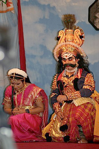 This still is from Yakshagana "Sri Krishna Sandana" played at Sanatana Dharma Kendra, USA